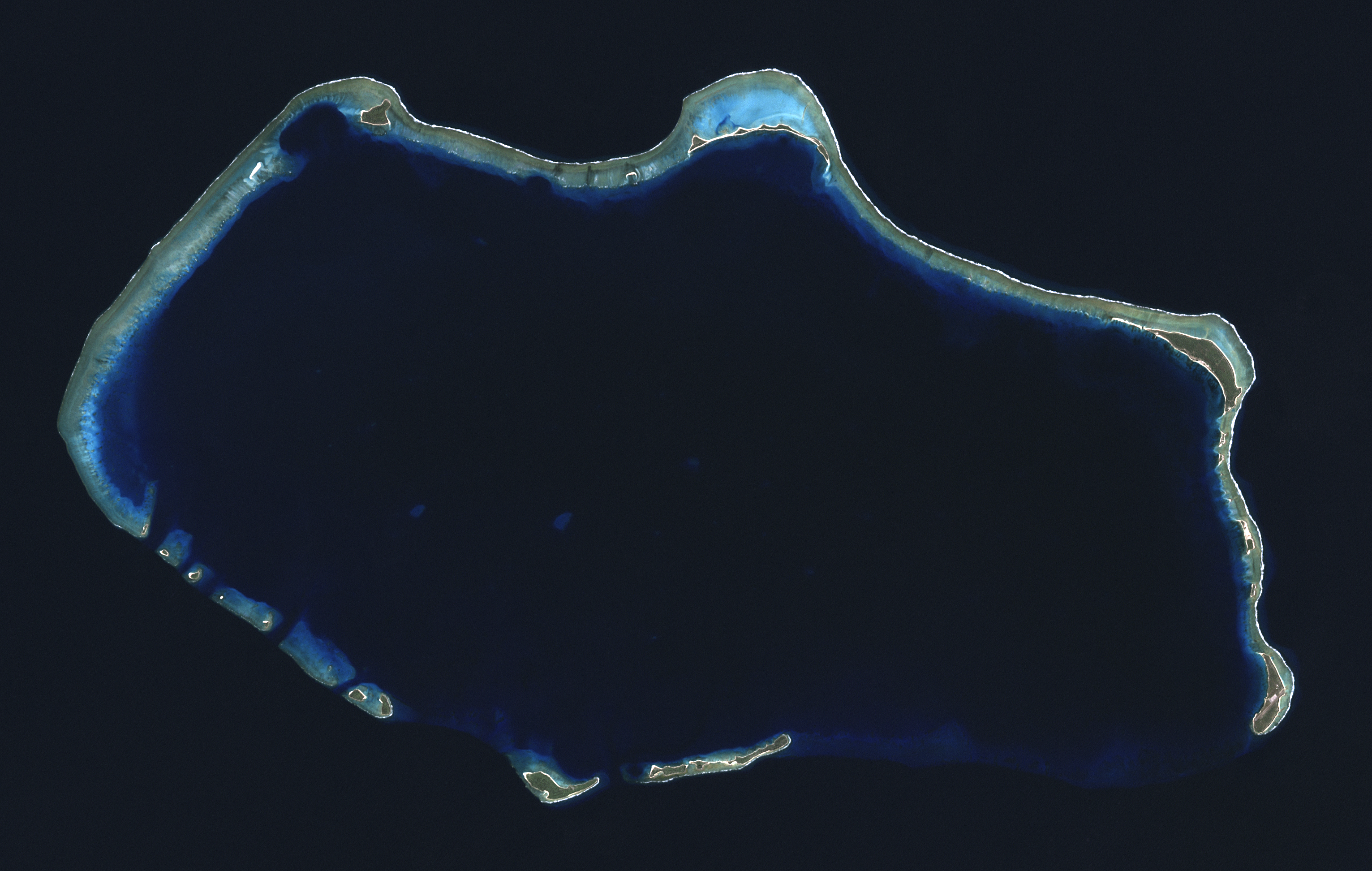 Composite "true color" multispectral satellite image of Bikini Atoll, Marshall Islands. NASA Landsat 7 ETM+ bands used were 3 (red), 2 (green) and 1 (blue), and the image was pan-sharpened to 15m resolution. Imagery courtesy of NASA/USGS.